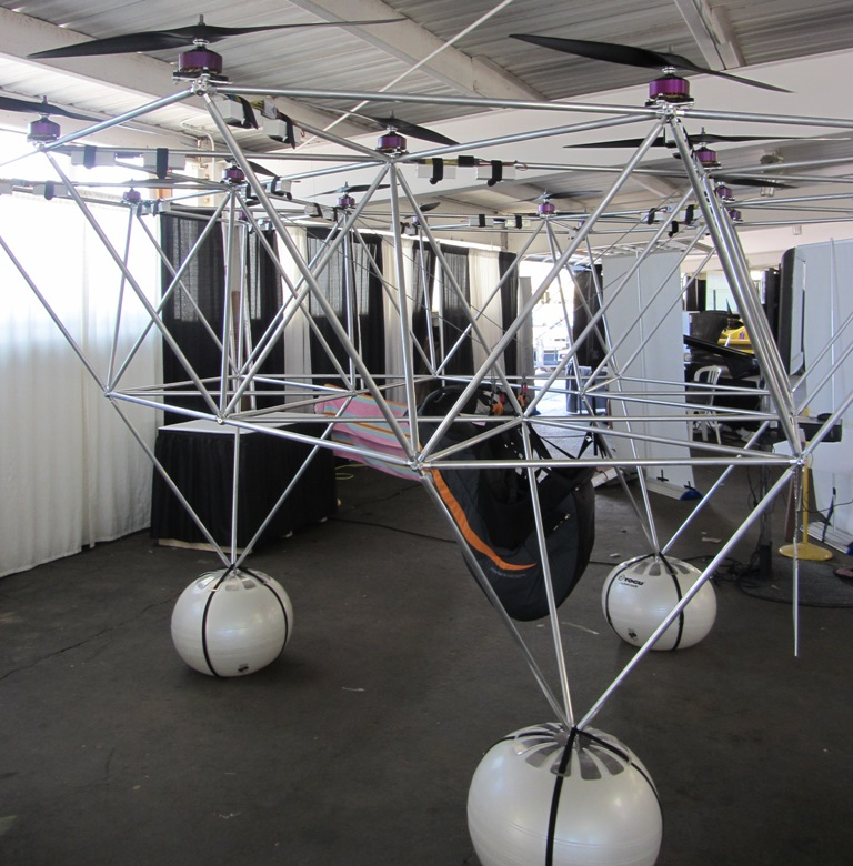 eVolo VC-2